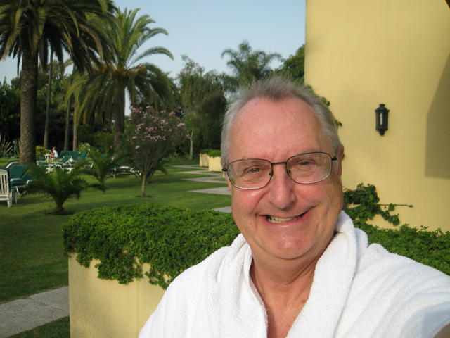 Jonathan King